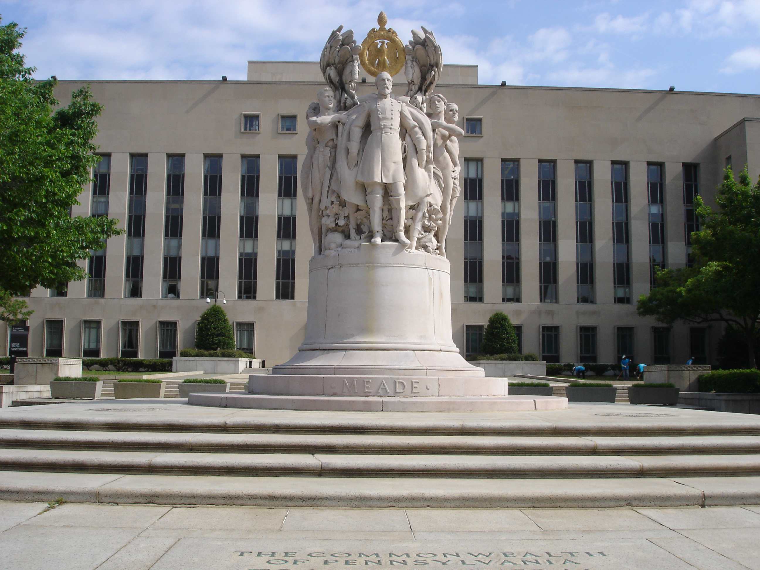 Statue of meade in front of the courthouse